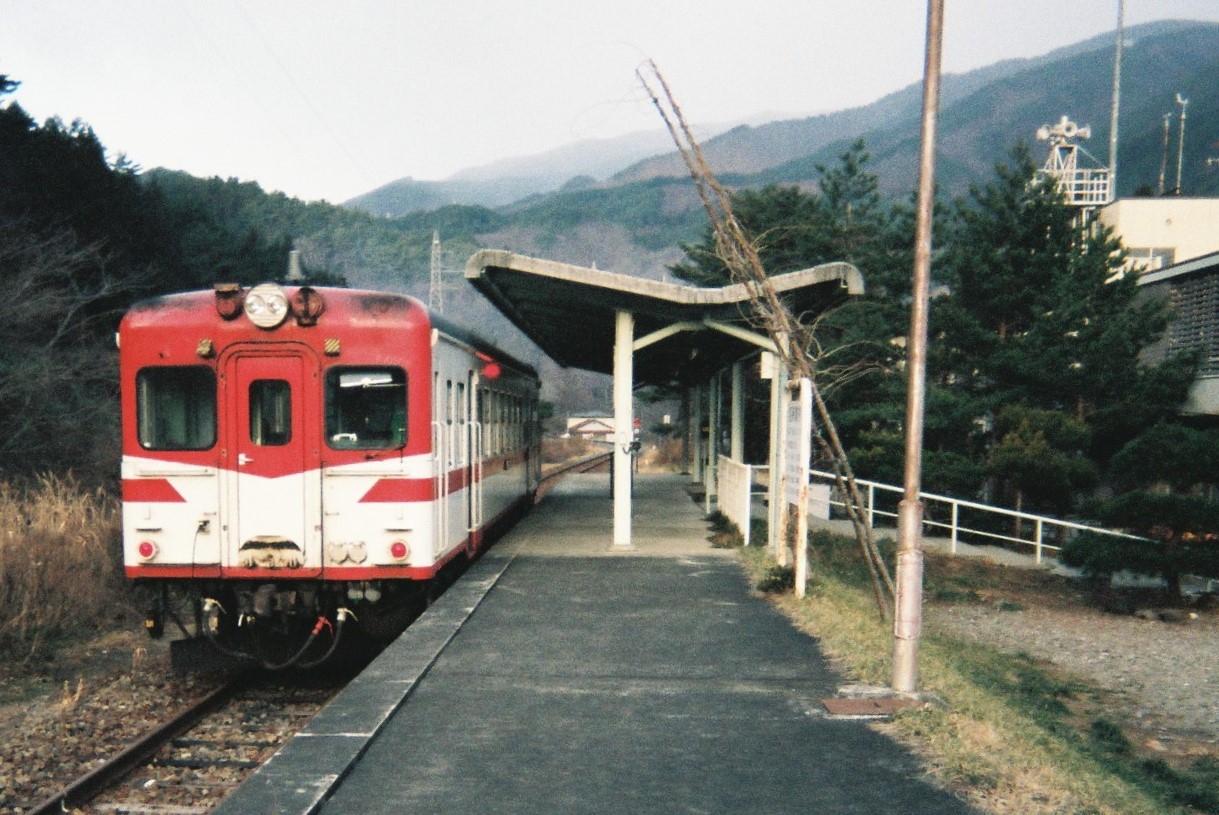 Iwaizumi Station in Iwate Prefecture, Japan